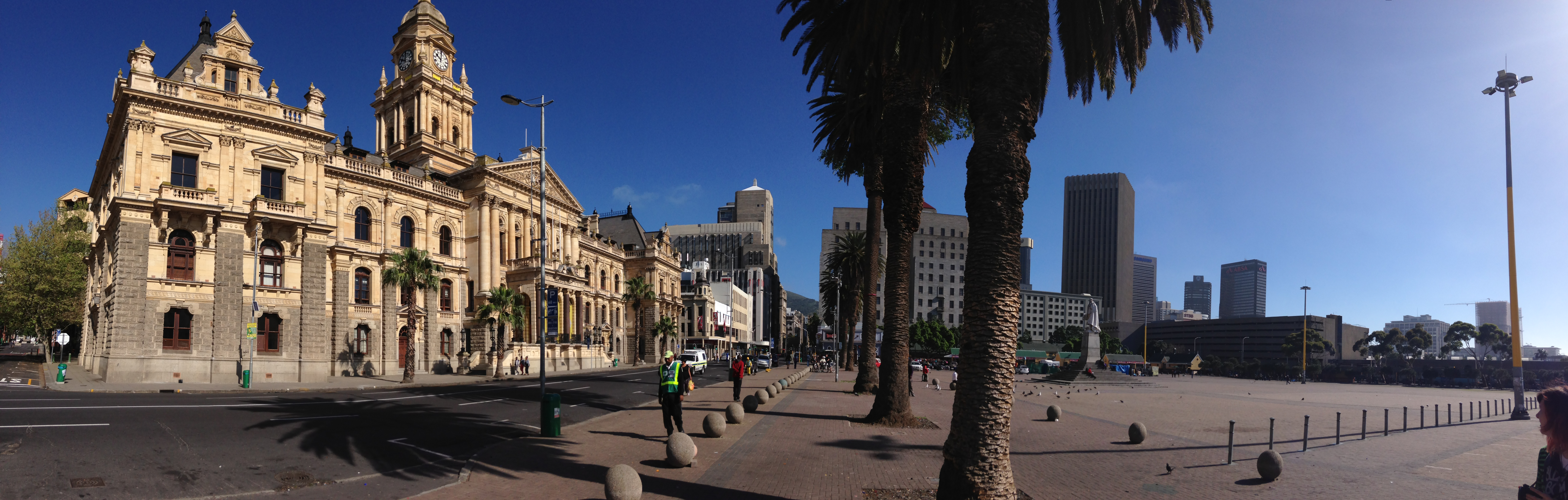 A panoramic photograph of the old Cape Town City Hall and Grand Parade. This City Hall which is predominantly in the Italian Renaissance style, was designed by the architects Harry Austin Reid and Frederick George Green of Johannesburg and erected by the builders Thomas Howard and John Gibson Scott. This media shows a South African Protected Site with SAHRA file reference 9/2/018/0115.